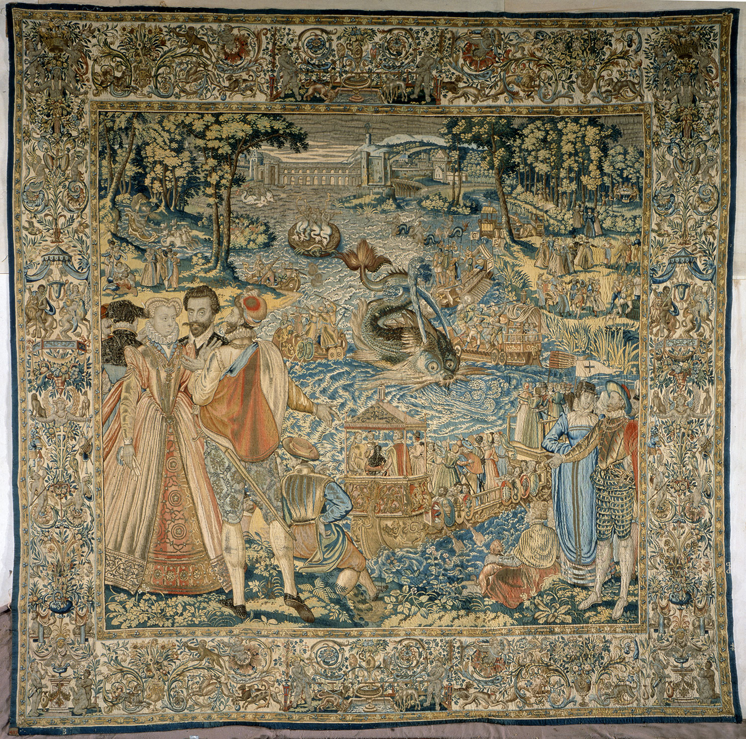 Water Festival at Bayonne. Tapestry. 335 × 394 cm. Uffizi, Florence. This is one of eight tapestries, known as the Valois Tapestries, that illustrate the festivals of the Valois court organised by Catherine de' Medici. All were based, at least partly, on designs by Antoine Caron. This one depicts festivities at the summit meeting between the French and Spanish courts at Bayonne in 1565.